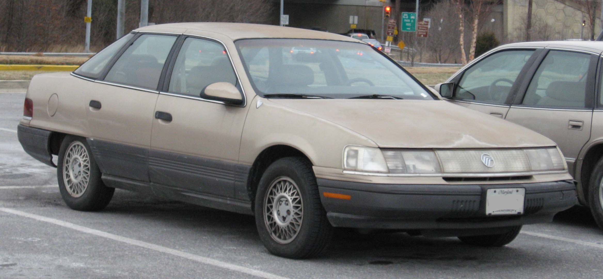 1989-1991 Mercury Sable LS photographed in USA.